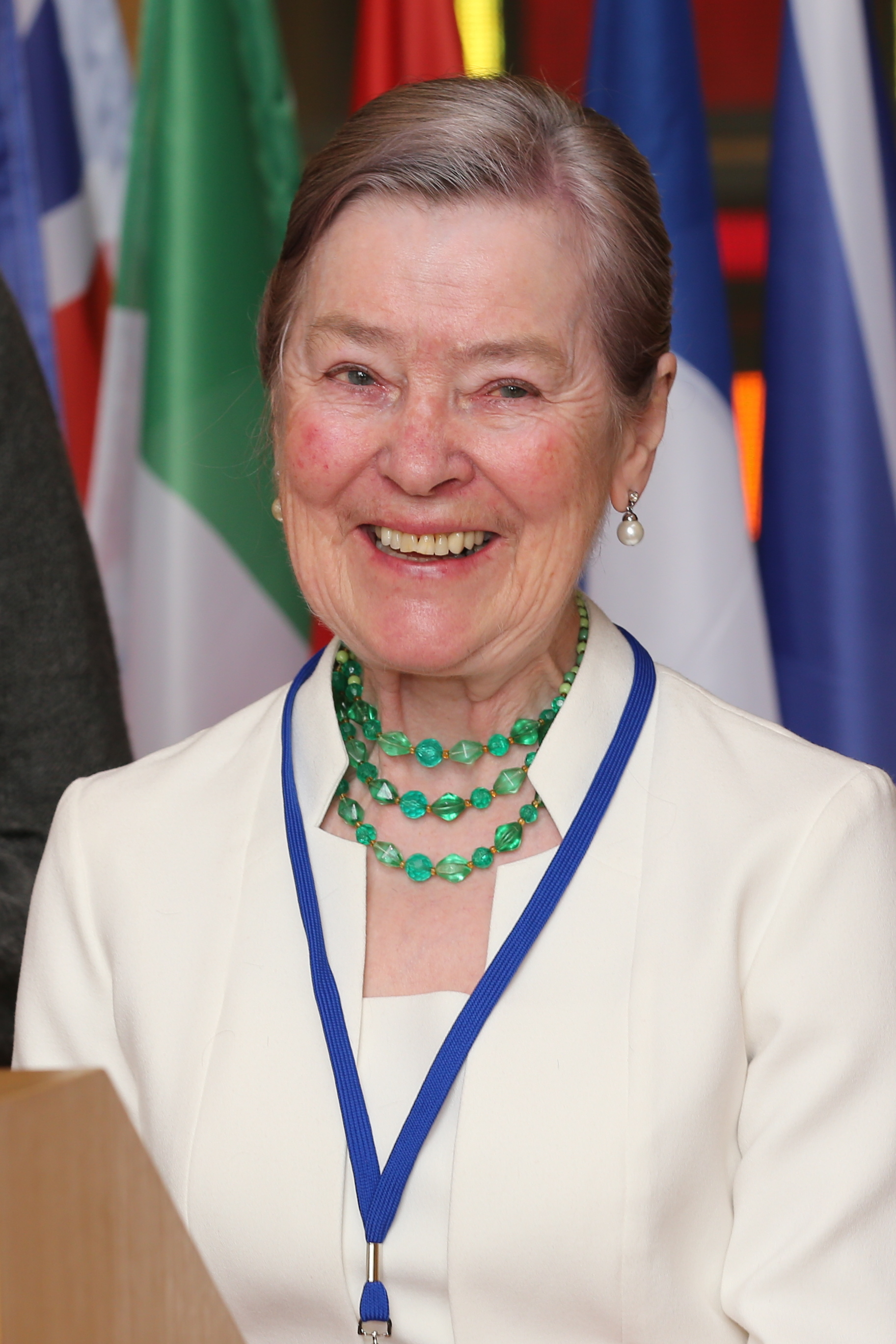 Anne Buttimer recieving the Vautrin Lud Prize during the International Geography Festival in Saint-Dié-des-Vosges.